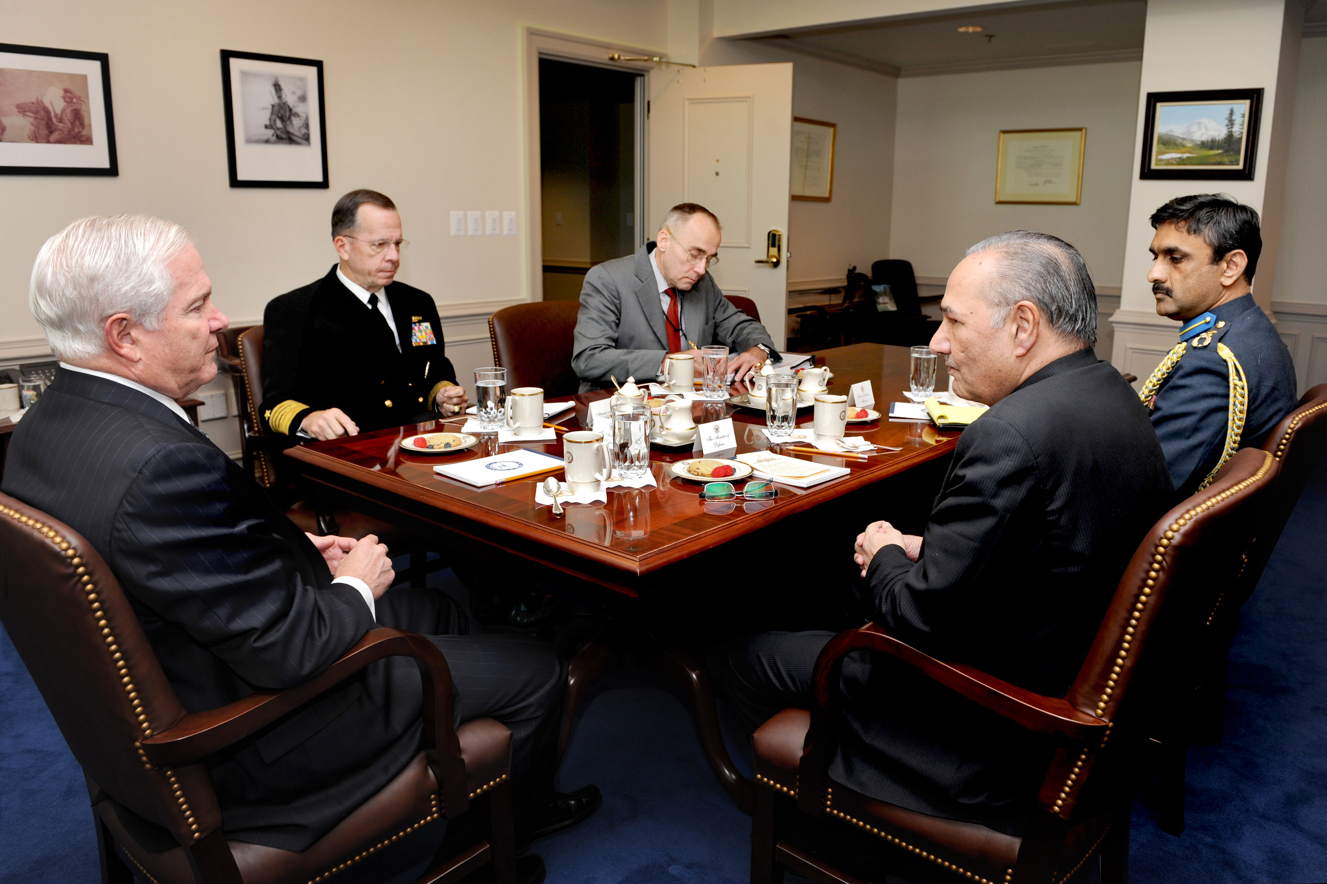 Secretary of Defense Robert M. Gates (left) holds a Pentagon meeting with Pakistani Defense Minister Chaudhry Ahmed Mukhtar (2nd from right). Gates is joined by Chairman of the Joint Chiefs of Staff Adm. Mike Mullen (2nd from left), U.S. Navy, and Assistant Secretary of Defense for Asia-Pacific Security Affairs Chip Gregson. Mukhtar is accompanied by Group Capt. Ahmer Shehzad, the air attachâ€š at the Pakistan Embassy in Washington, D.C.